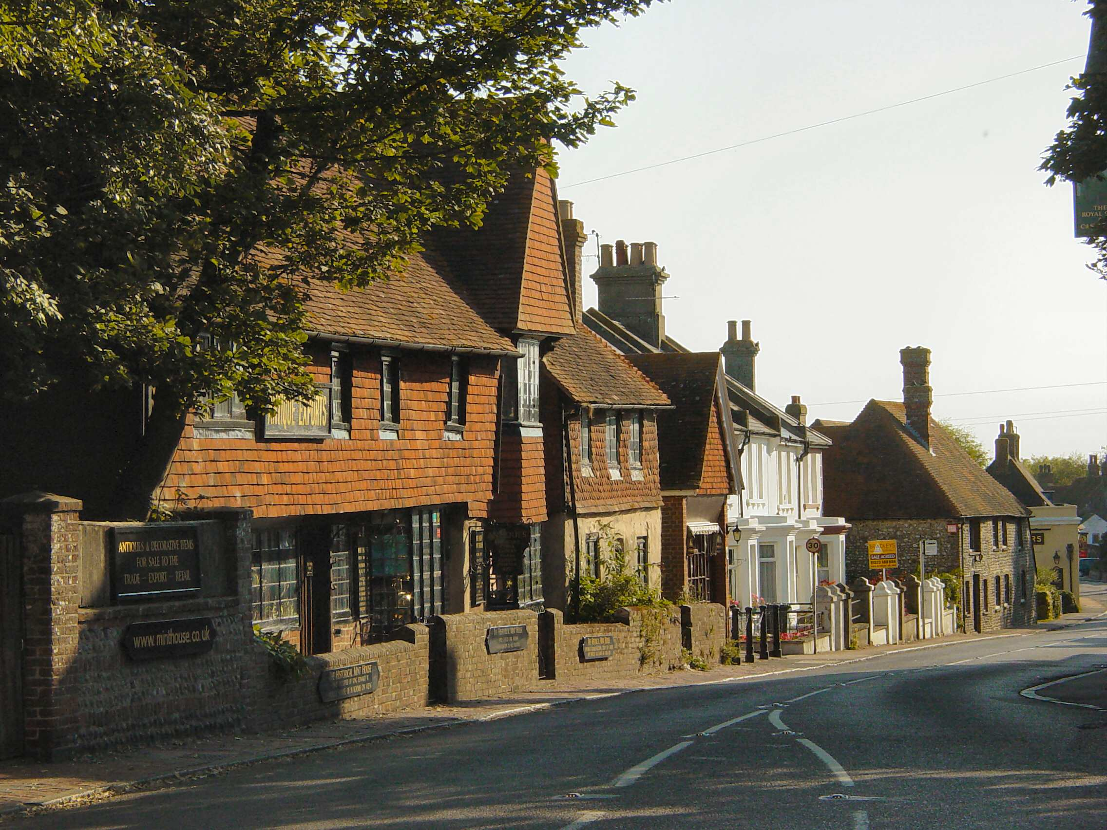 Photo taken and supplied by Brian Voon Yee Yap.